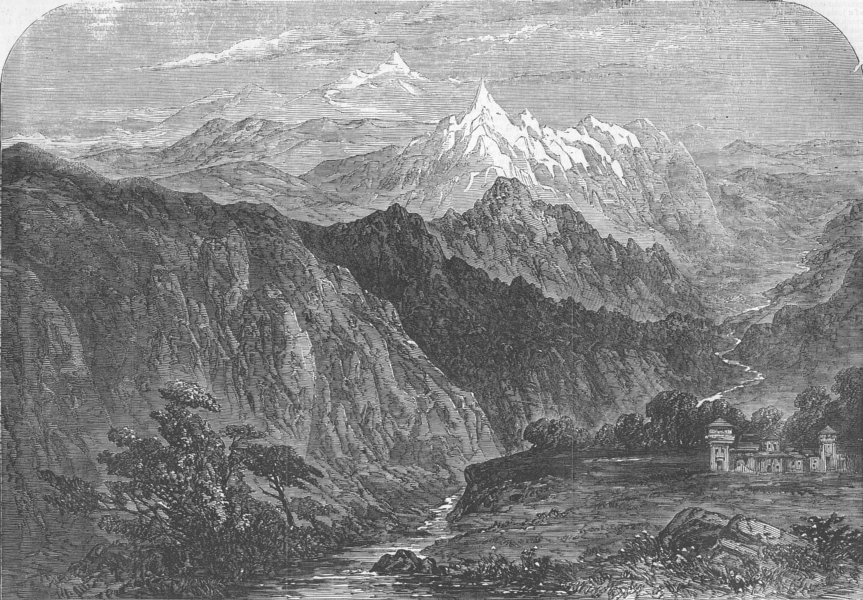 "Hungarung Pass in the Himalayas" (nowadays called Shipki La, where the Sutlej River enters India from Tibet), from the Illustrated London News, 1856 Source: ebay, June 2007